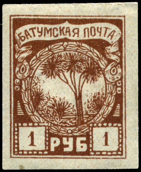 Batum 1-ruble stamp of 1919